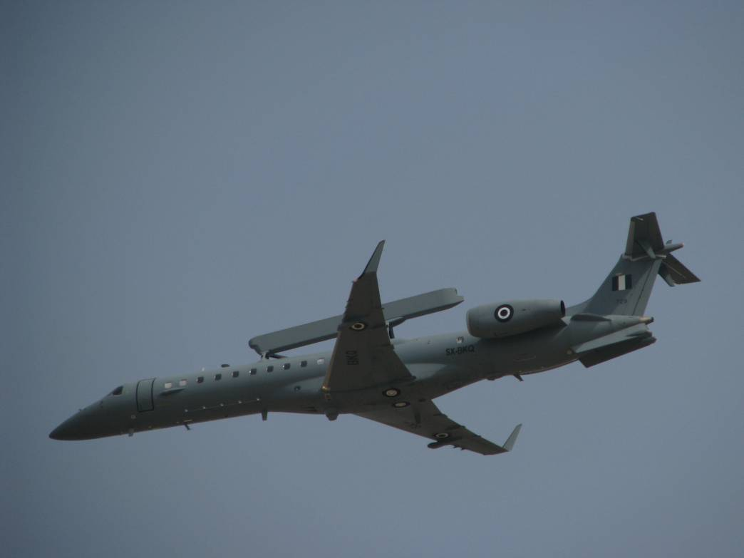 A Hellenic Air Force Embraer EMB-145H AEW&C flying by at the 2008 HAF air show, in Tanagra airbase, Greece